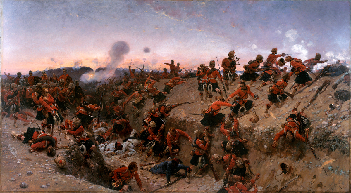 de Neuville, Alphonse-Marie-Adolphe; The Storming of Tel el Kebir; National Museums Scotland